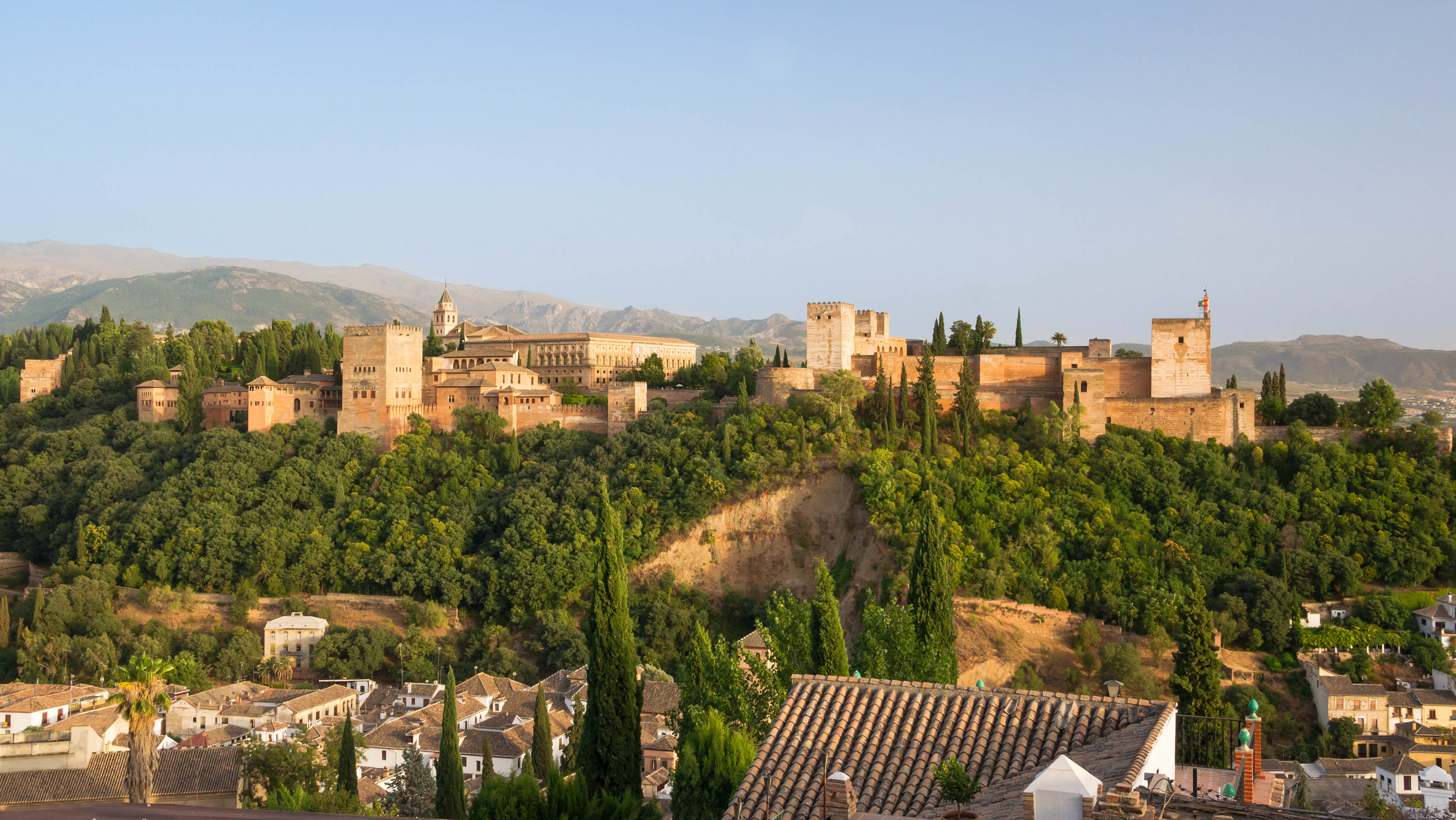 The whole Alhambra, as seen from the mirador San Nicolas, Granada, Spain.